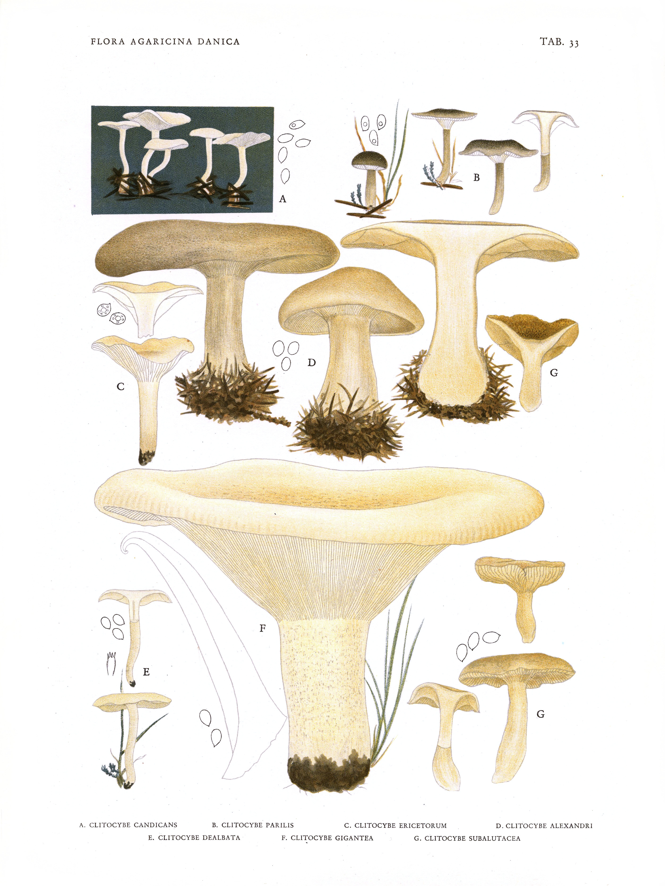 Jakob E. Lange: Flora agaricina Danica. Vol. 1; TAB. 33 A. Clitocybe candicans B. Clitocybe trullaeformis as Clitocybe parilis C. Clitocybe ericetorum D. Clitocybe alexandri E. Clitocybe rivulosa as Clitocybe dealbata F. Leucopaxillus giganteus as Clitocybe gigantea G. Clitocybe frysica as Clitocybe subalutacea